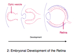 The convex stadium of the retina during evolution is mirrored in the embryonal development in form of the optic vesicle.